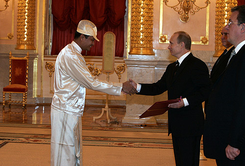 THE GRAND KREMLIN PALACE, MOSCOW. The Union of Myanmar\'s ambassador to Russia, Min Tein, gave the President a letter of credentials.